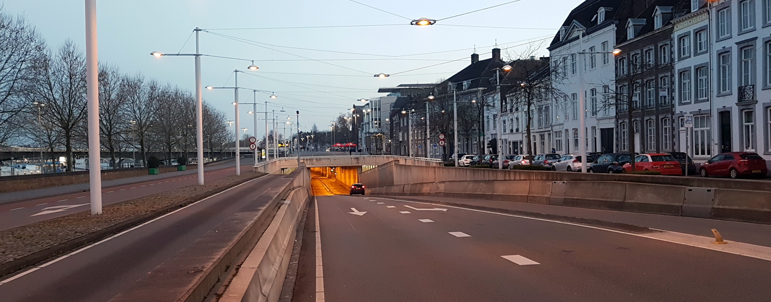 Evening view of Maasboulevard and the northern tunnel entrance in Maastricht, Netherlands.